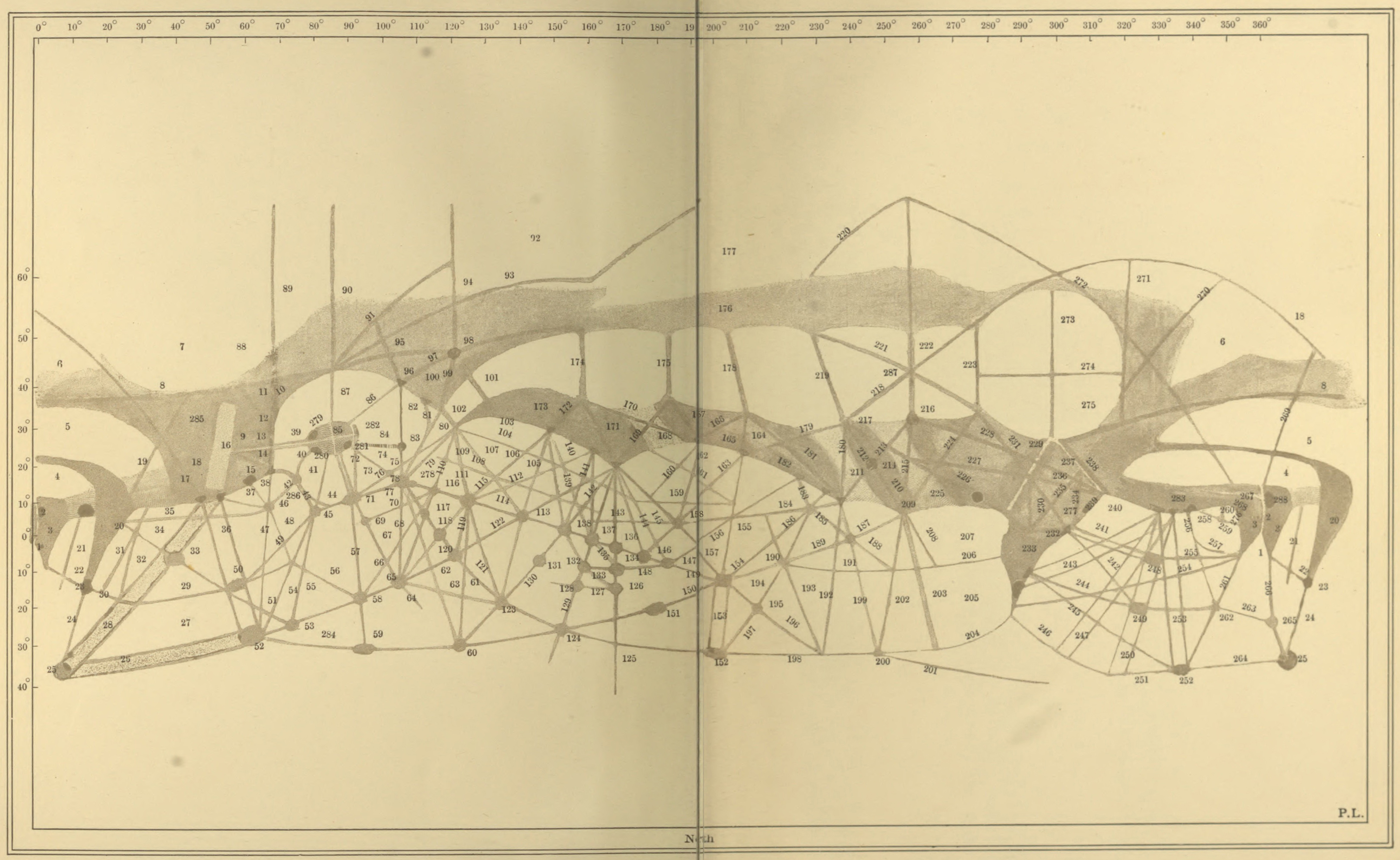 Plate 24, Figure 1 of Percival Lowell's Mars Created by stitching File:Mars - Lowell - Page 290.jpg and File:Mars - Lowell - Page 291.jpg. A small portion of the map in the centre is lost inside the crease. Where possible, missing numbers have been inferred and added. These numbers are: 149, 158 and 167.